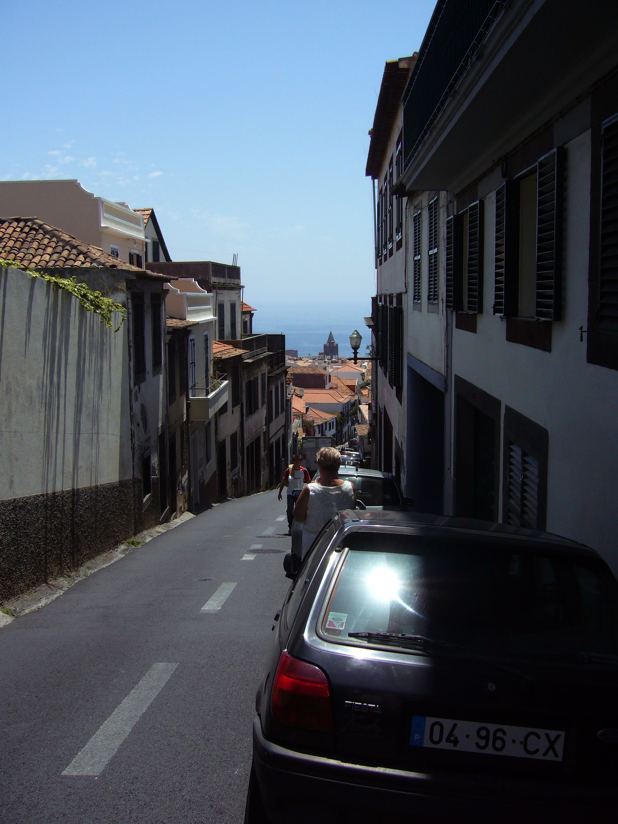 Downtown from Fortaleza do Pico in Funchal - Madeira